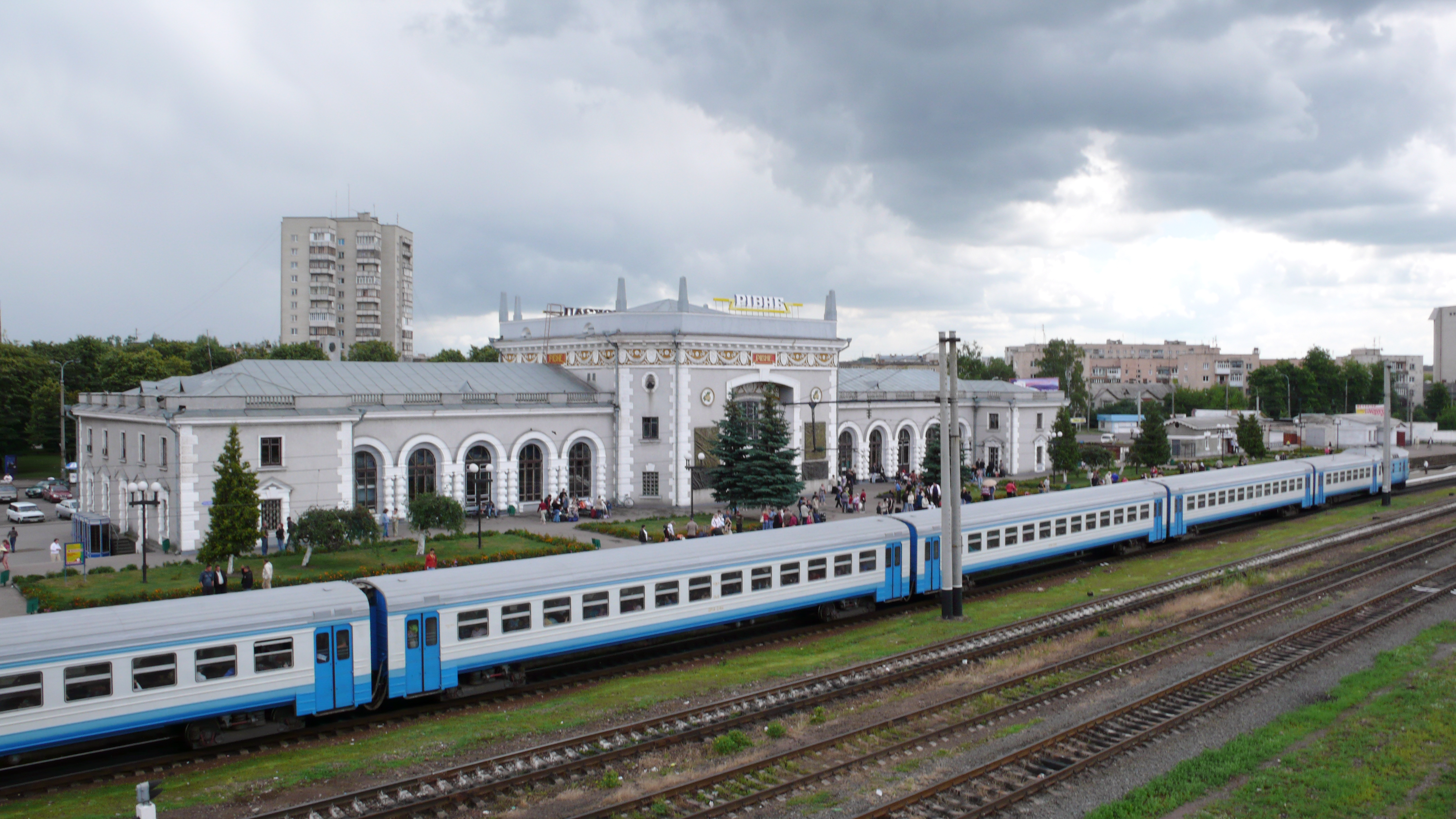 Rivne railway station in Rivne, Ukraine. Looking over on the station from pedestrian bridge